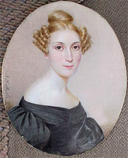 Alfred Thomas Agate's portrait miniature of a lady